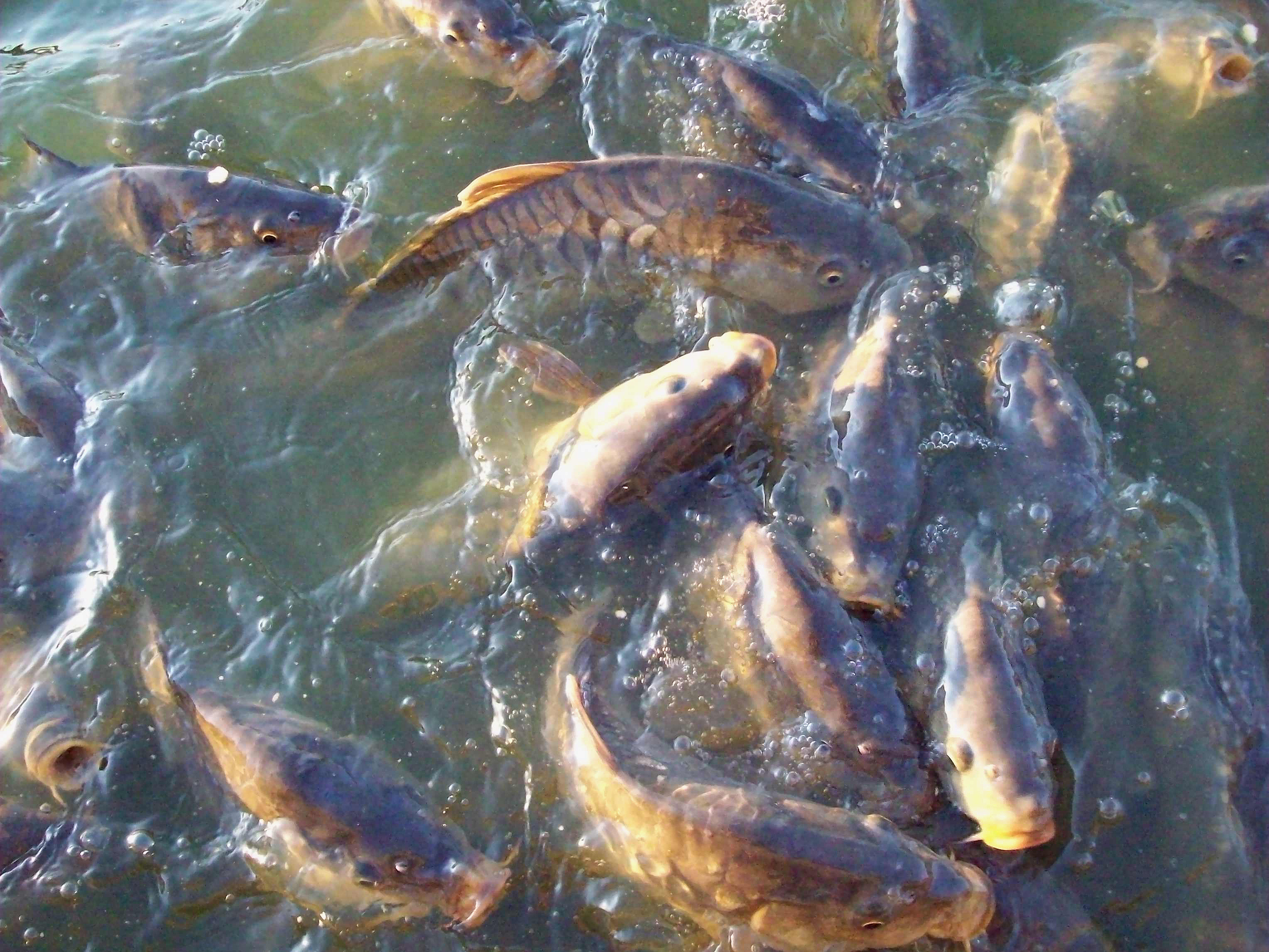 Carps at the lake of the Parque Juan Carlos I (a park) in Madrid (Spain).